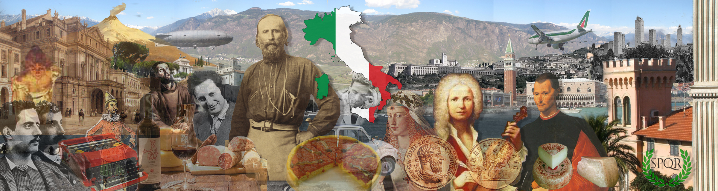 French portal banner for Italy